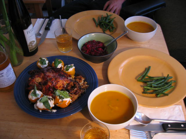 The Big Meal: Cornish game hen, Chinese long beans, Mini-bell peppers stuffed with goat cheese and basil along with fresh cranberry sauce, gewurtztraminer and sparkling grape juice.